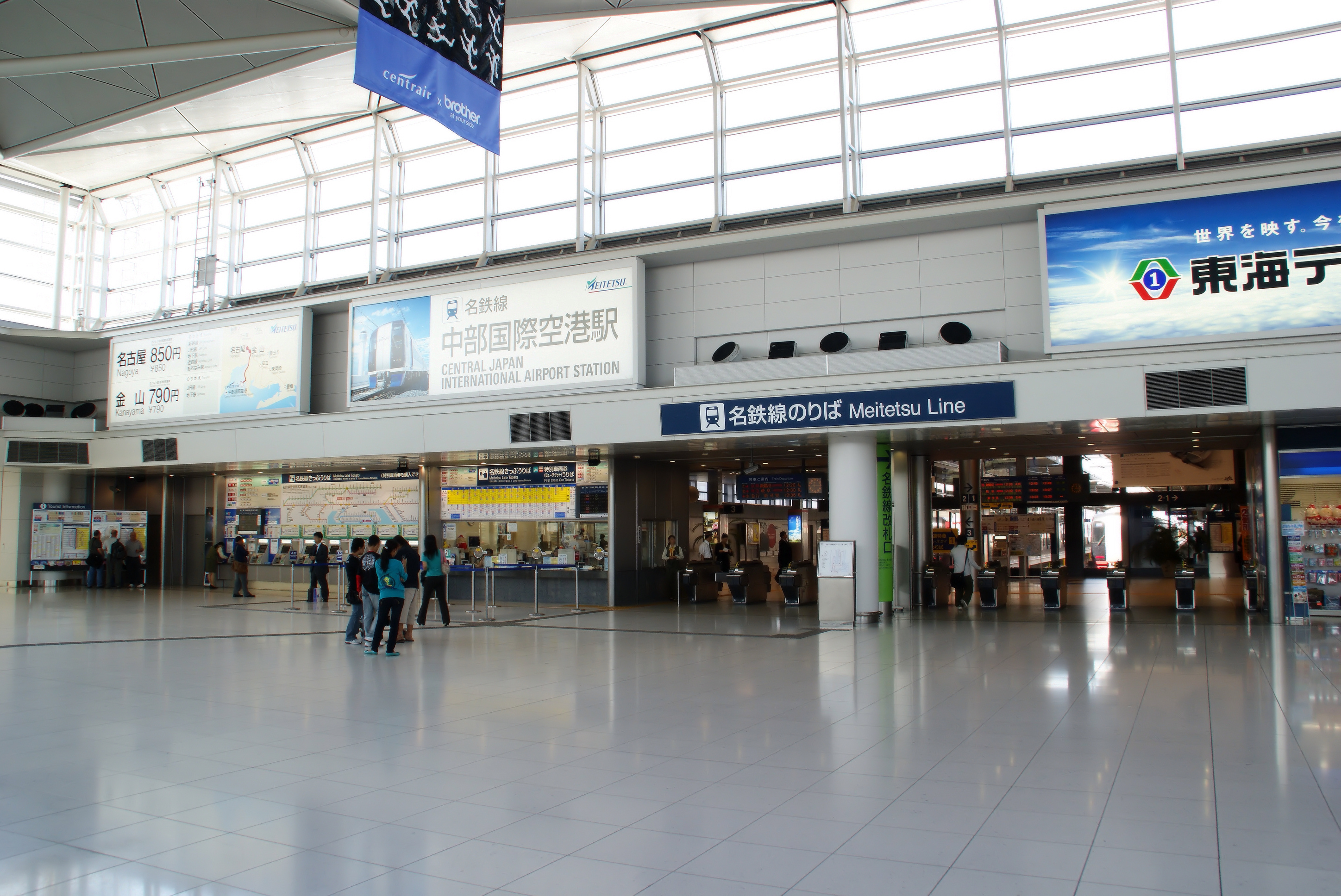 Nagoya Railroad, Ticket Gate of Central Japan International Airport Station.(Tokoname City, Aichi Prefecture, Japan)